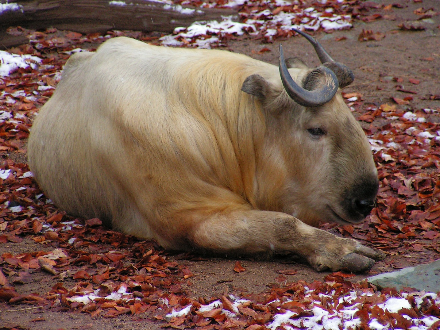 Budorcas taxicolor bedfordi in ZOO Liberec, Czech Republic, november 2005